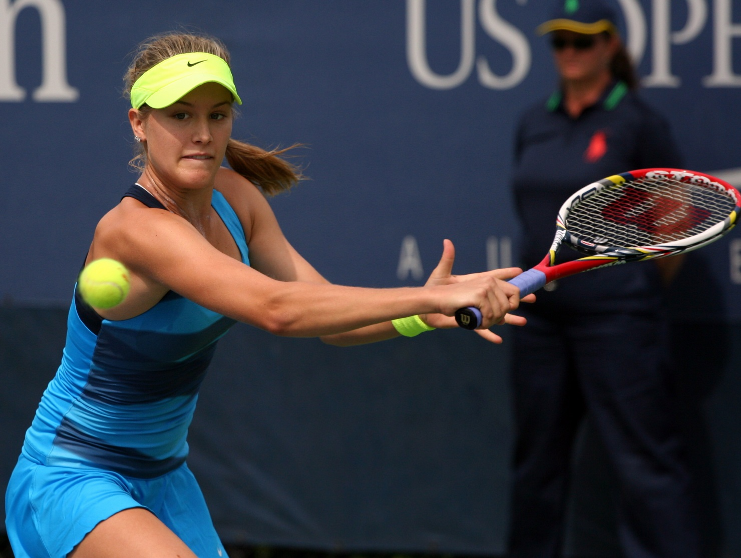 Eugenie Bouchard at the 2012 US Open